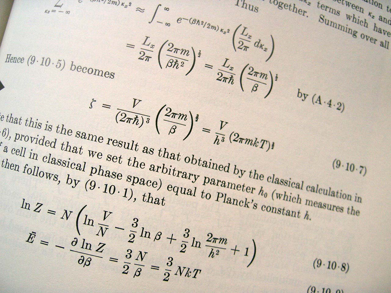 Example of Physics Book: Frederick Reif, Fundamentals of Statistical and Thermal Physics, McGraw-Hill Science/Engineering/Math; 1st edition (June 1, 1965) ISBN 0070518009 (Hardcover)